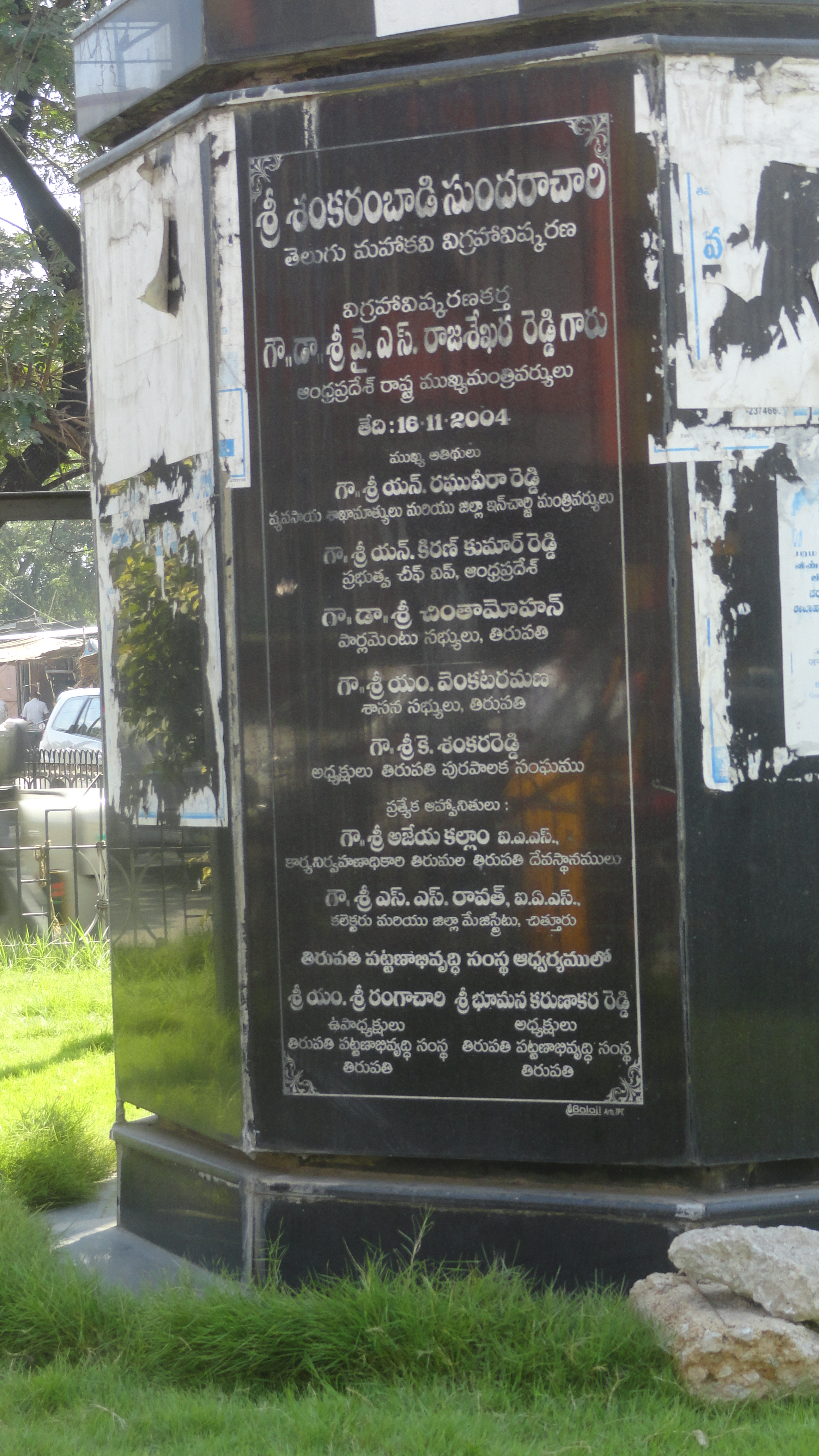 SankarambaDi sundaracarya.